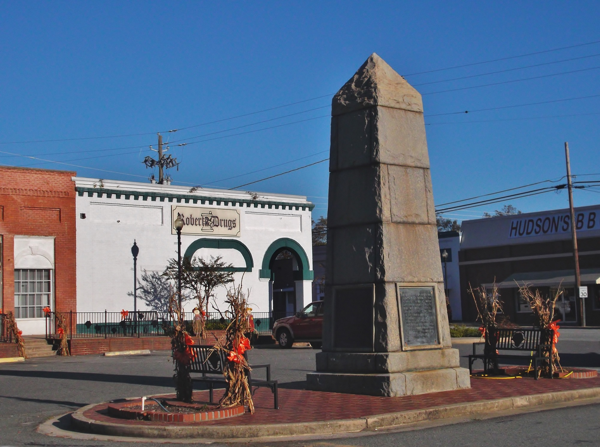 The monument for Col. Benjamin Hawkins in Roberta, Georgia.